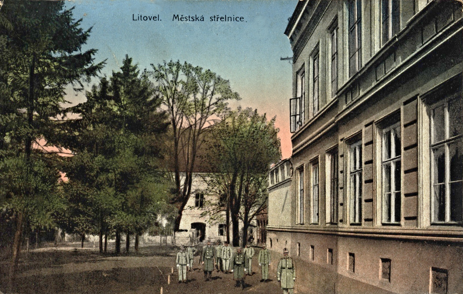 Building of the former shooting range in Litovel, nowadays Museum Litovel.